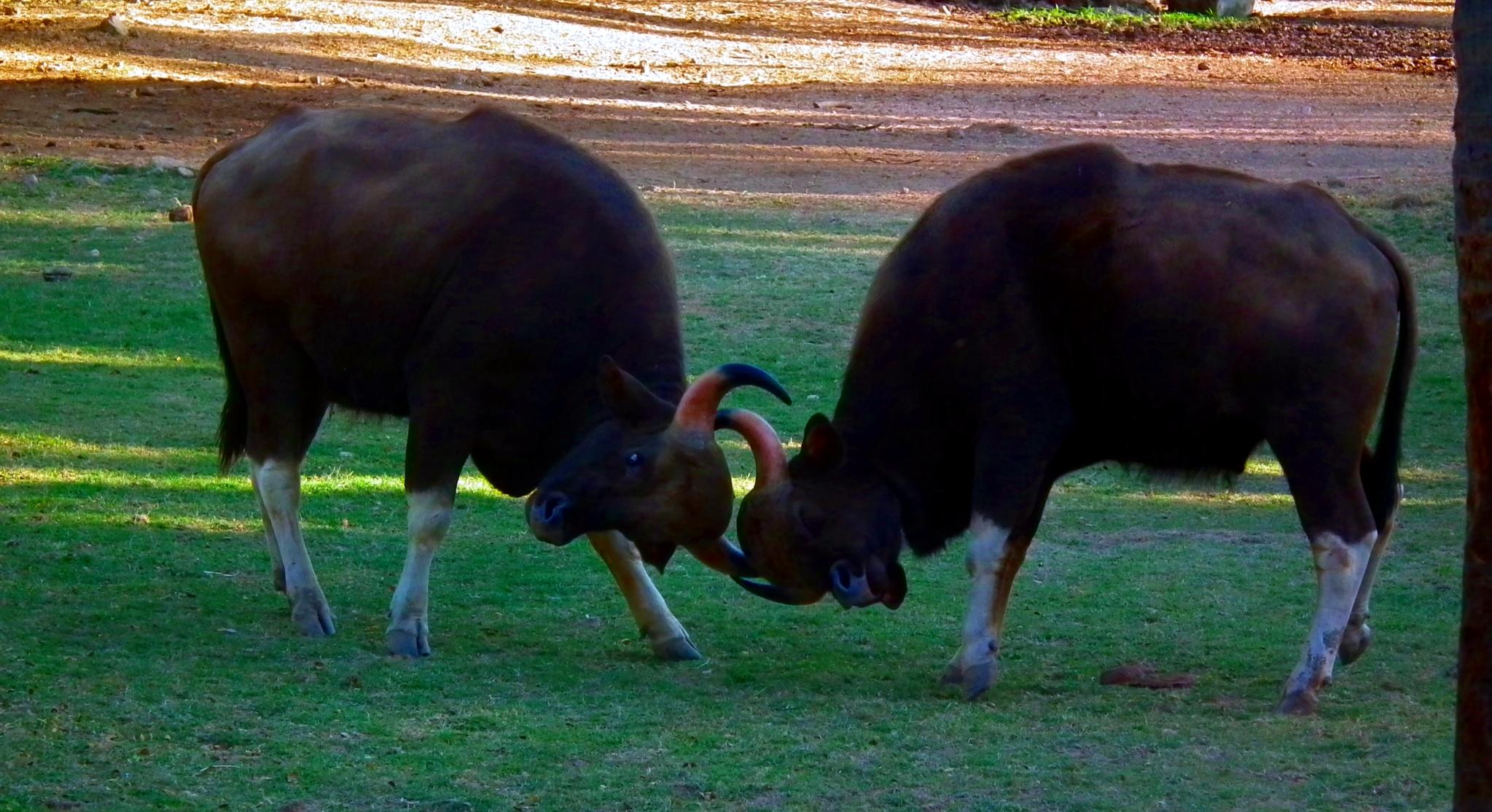 The gaur (Bos gaurus), also called Indian bison, is a large bovine native to South Asia and Southeast Asia. The species is listed as vulnerable on the IUCN Red List since 1986 as the population decline in parts of the species' range is likely to be well over 70% over the last three generations. Population trends are stable in well-protected areas, and are rebuilding in a few areas which had been neglected